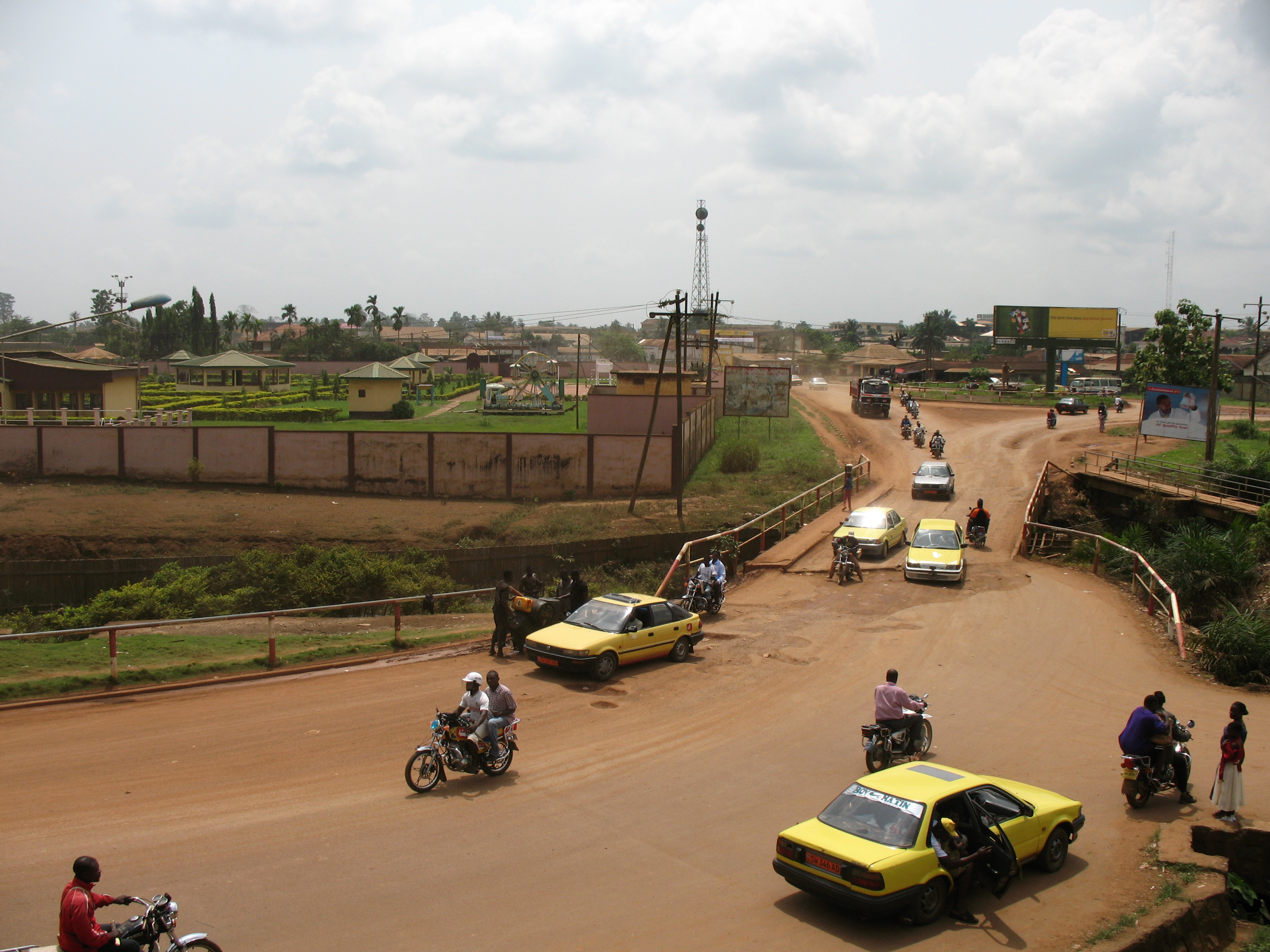 Prim park, dusty road_1578